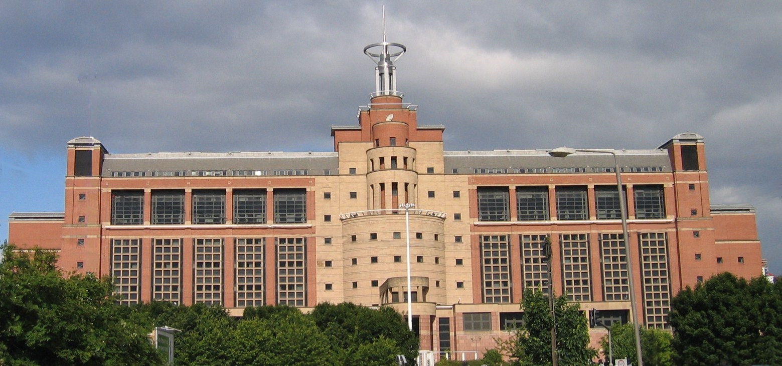 Quarry House, Quarry Hill, Leeds, LS2 7UA (DWP) & LS2 7UE (DoH). Department for Work and Pensions and Department of Health. Opened 1993